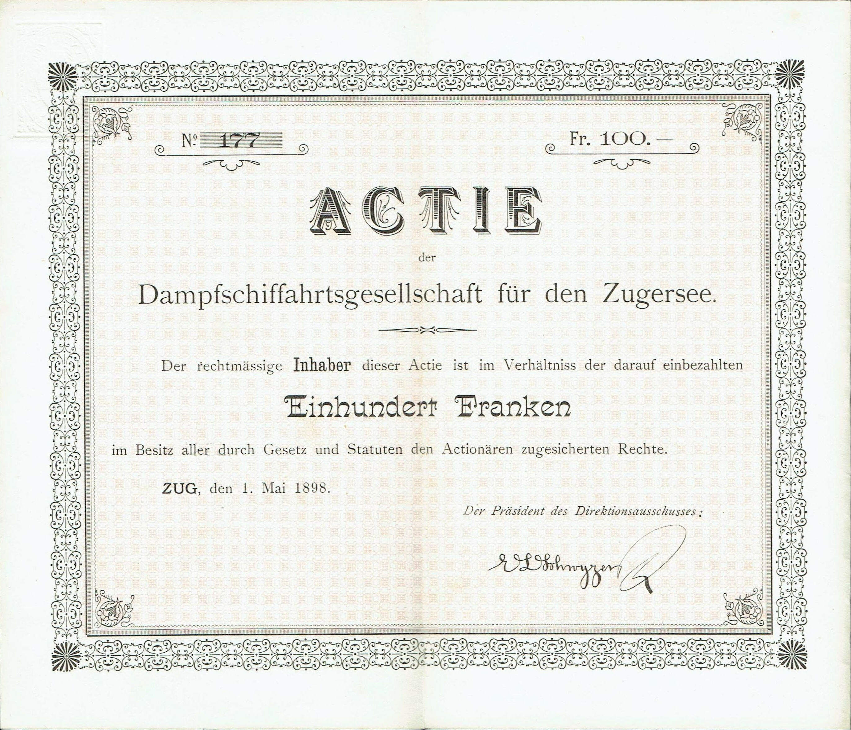 Share of the Dampfschiffahrtsgesellschaft für den Zugersee, issued 1. May 1898